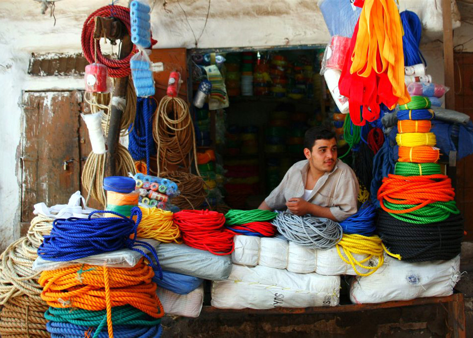 An ancient covered souq run through 10 kilometres of narrow covered streets. The souks became known by the products sold there. For example, the perfume souk, is called souk Al Attareen, and the jewellers souk, souk Al Sagha. Most of them date from the 15th and 16th centuries and can be considered true popular museums. The inns or caravanserai (khan) are located near the souks because they were frequented by the merchants. They have tastefully decorated facades, and huge wooden doors reinforced with metal and copper. The most famous are Khan Al Gomrok, Khan Al Wazeer, Khan Al Saboon, Khan Ashouneh and Khan Al Nahaseen.